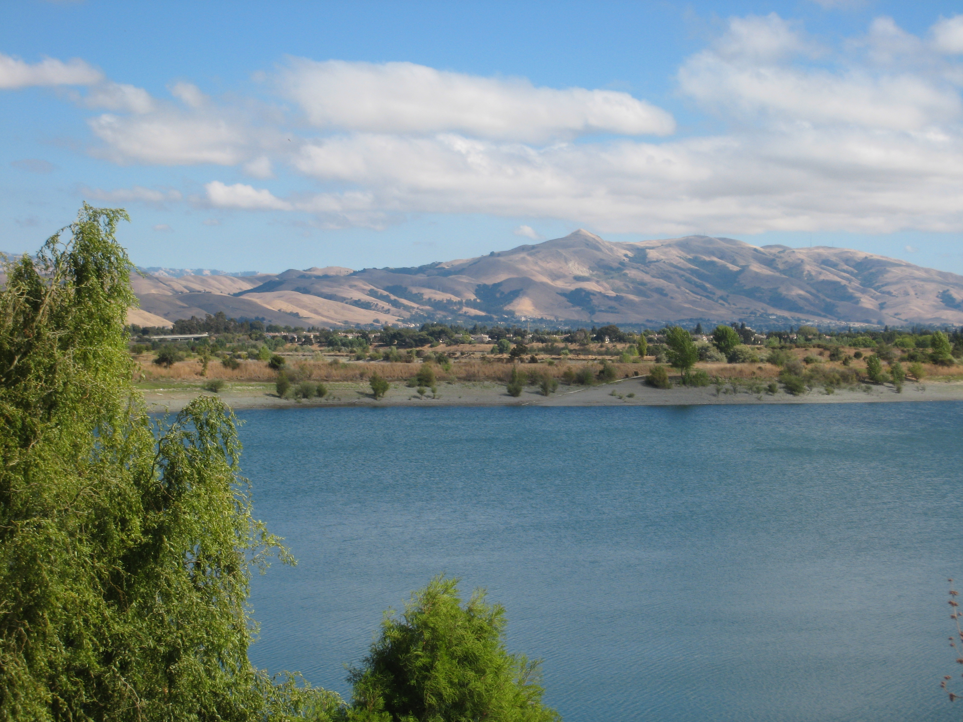 View of Mission Peak Pictures from Quarry Lakes Regional Recreation Area, from album by sfbaywalks. (Set ID: 72157624860527225)